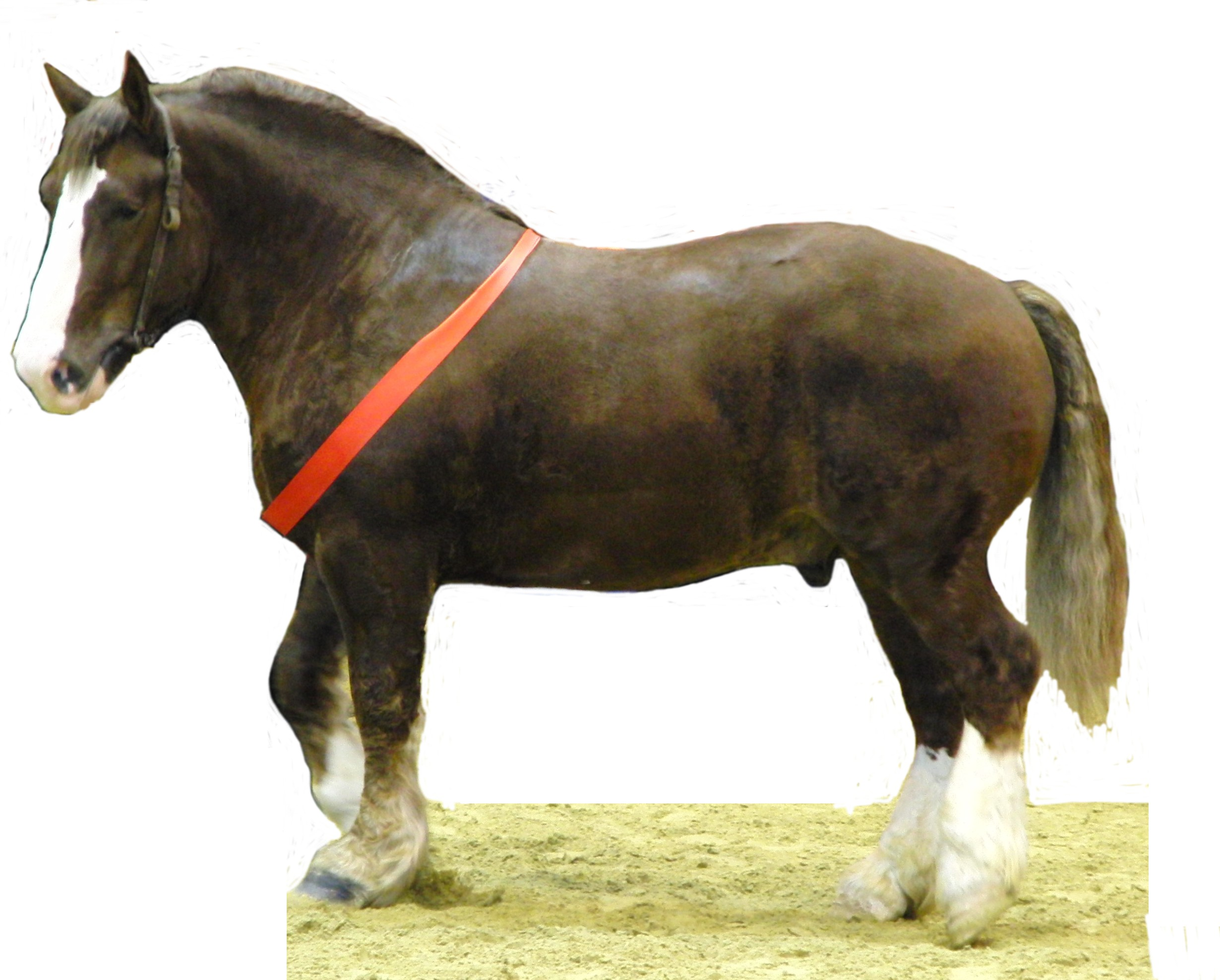 Breton stallion during a show - Paris International Agricultural Show 2012, Paris, France